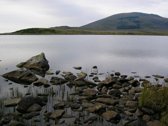 Llyn Irddyn. Grid ref refers to the nearest hump on the left. Craig y Dinas lies next to the right and Moelfre is the highest hill in the distance.